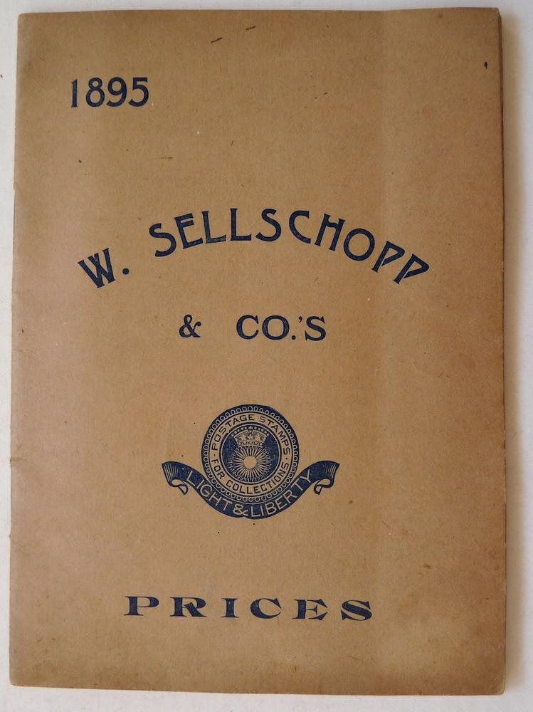 Title page of W. Sellschopp's Stamp Catalog, San Francisco 1895